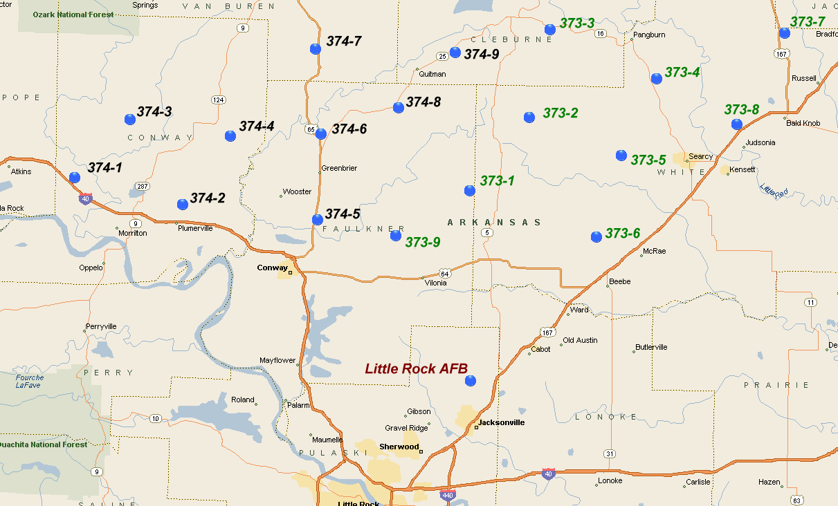 Titan II Strategic Missile (SM) sites of 373rd & 374th SMS(quadrons), commanded by 308th SMW(ing), 1963–1987